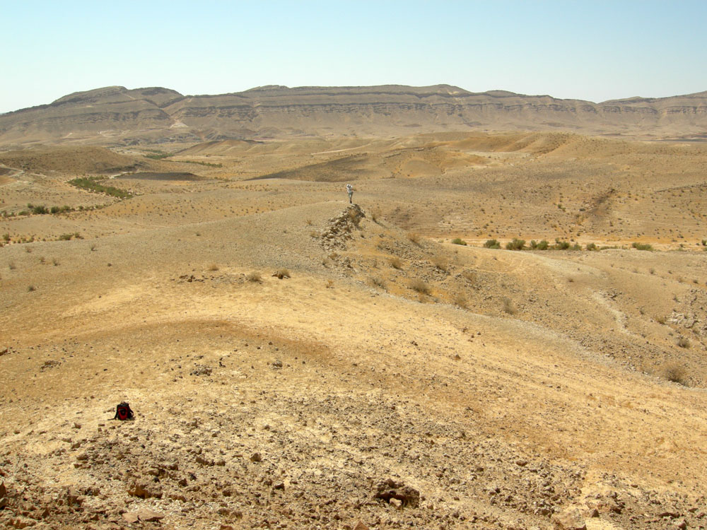 Center of Makhtesh Gadol, Negev, Israel.